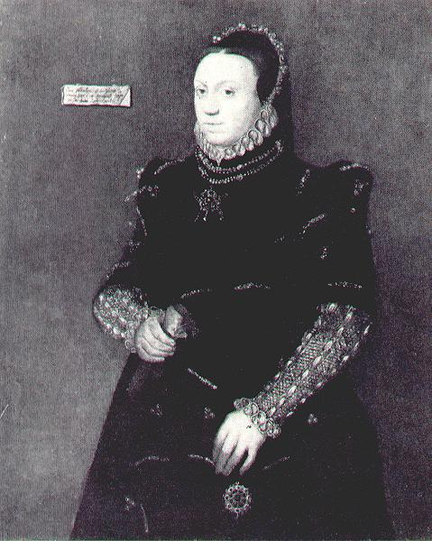 Portrait of Jane Fitzalan, Lady Lumley, 1563.